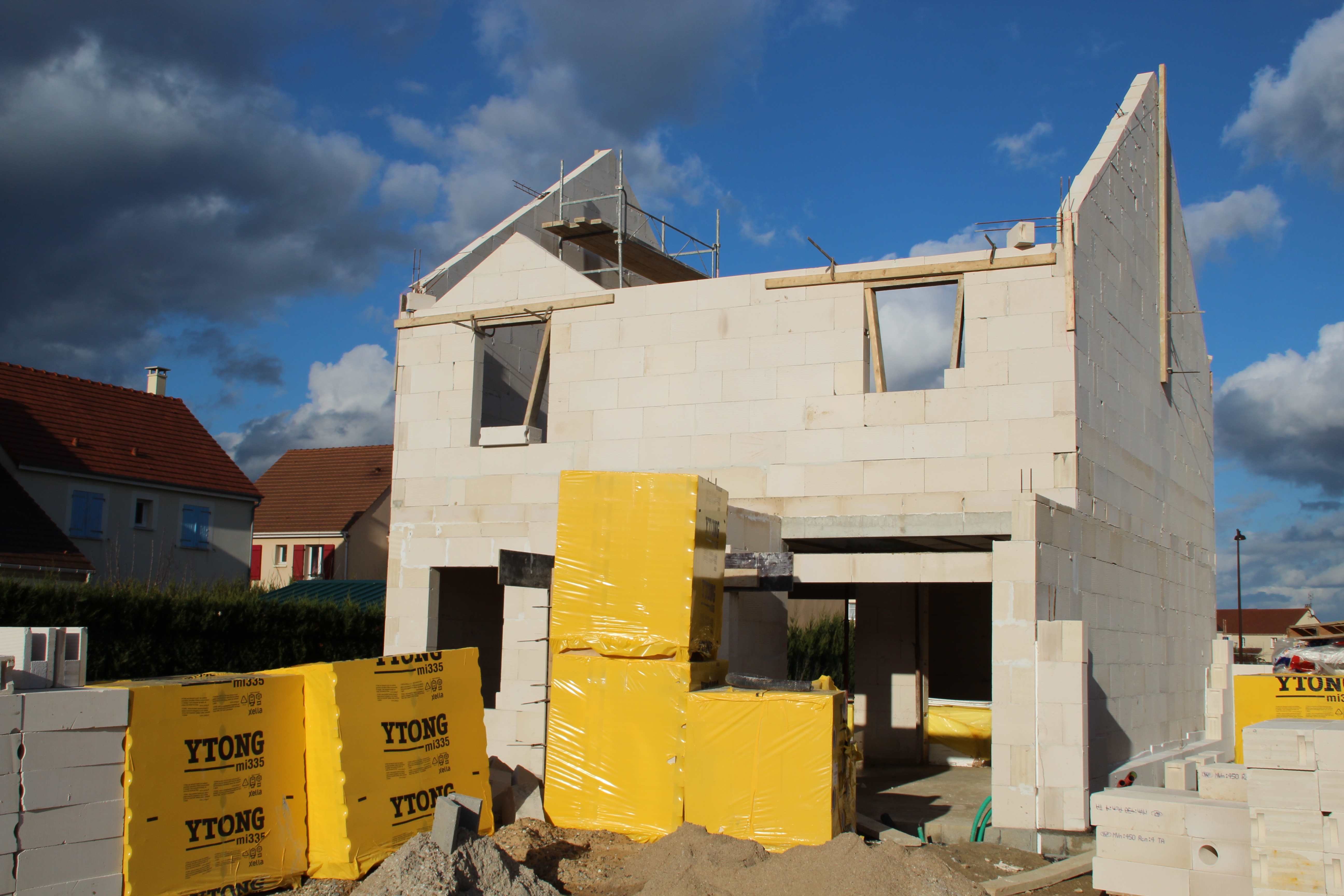 Construction sites of individual homes in Ablis, France.